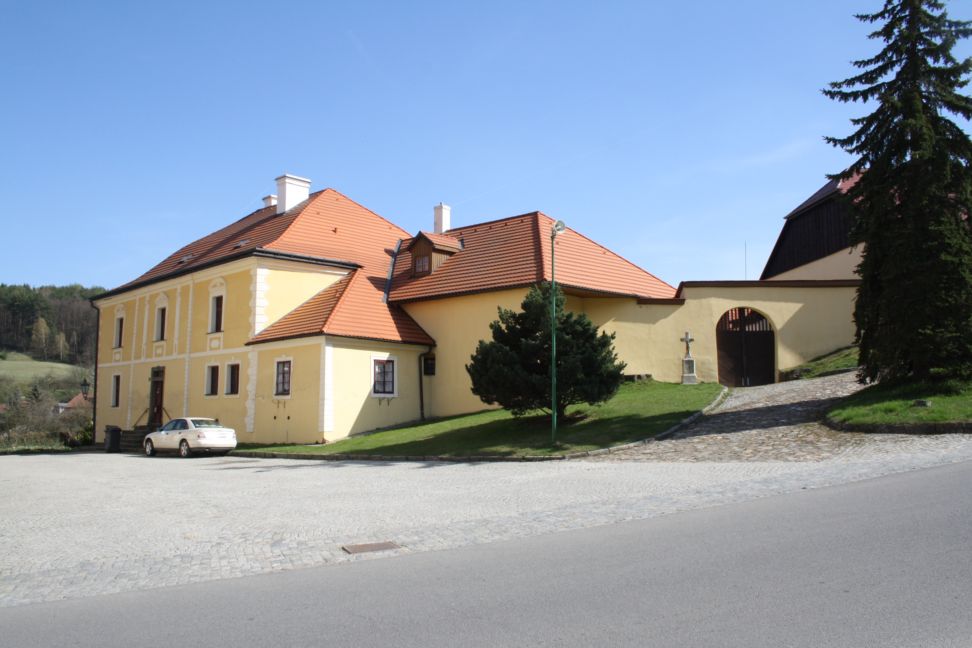 Estate in Brtnice.